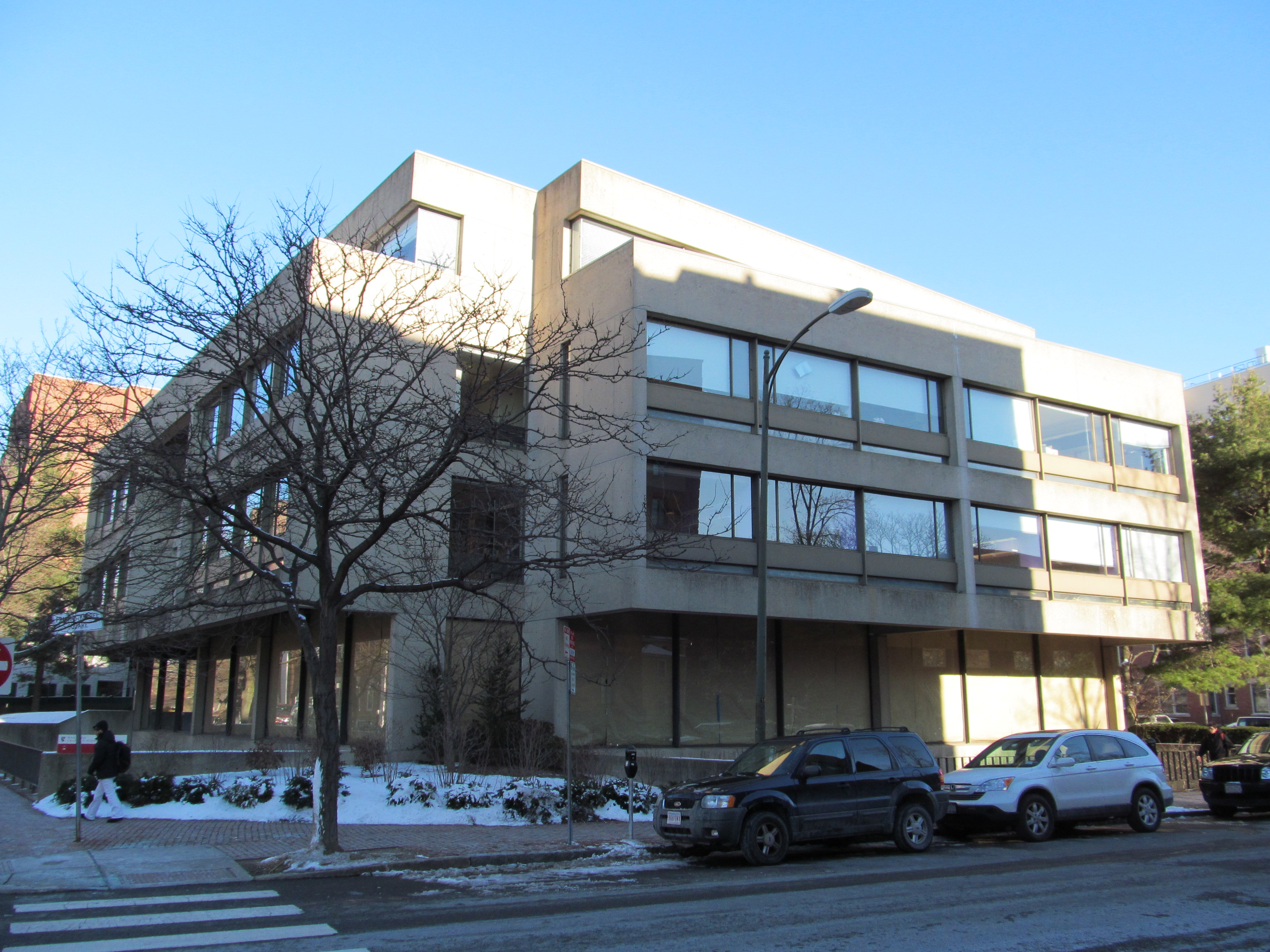 Gutman Library, Harvard University, Cambridge Massachusetts